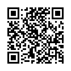 The sample payment QR code for the Czech branch of Red Cross